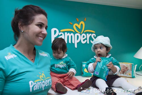 Giovanna Antonelli